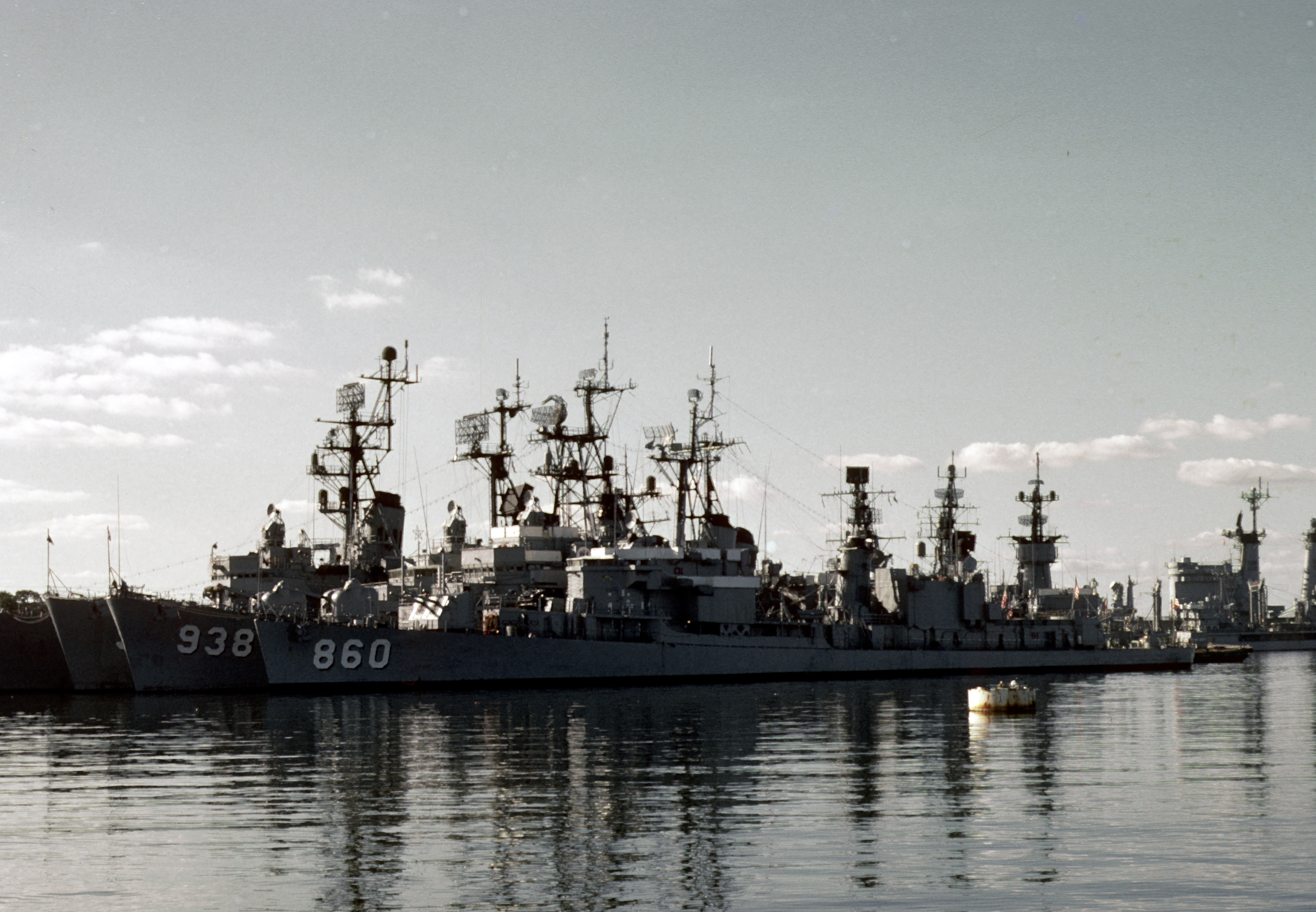 The U.S. Navy destoyer USS McCaffery (DD-860) in port (at Norfolk, Virginia (USA)?) on 24 November 1971. Moored inboard of McCaffery is USS Jonas Ingram (DD-938). An Albany-class guided missile cruiser is visible in the right background.